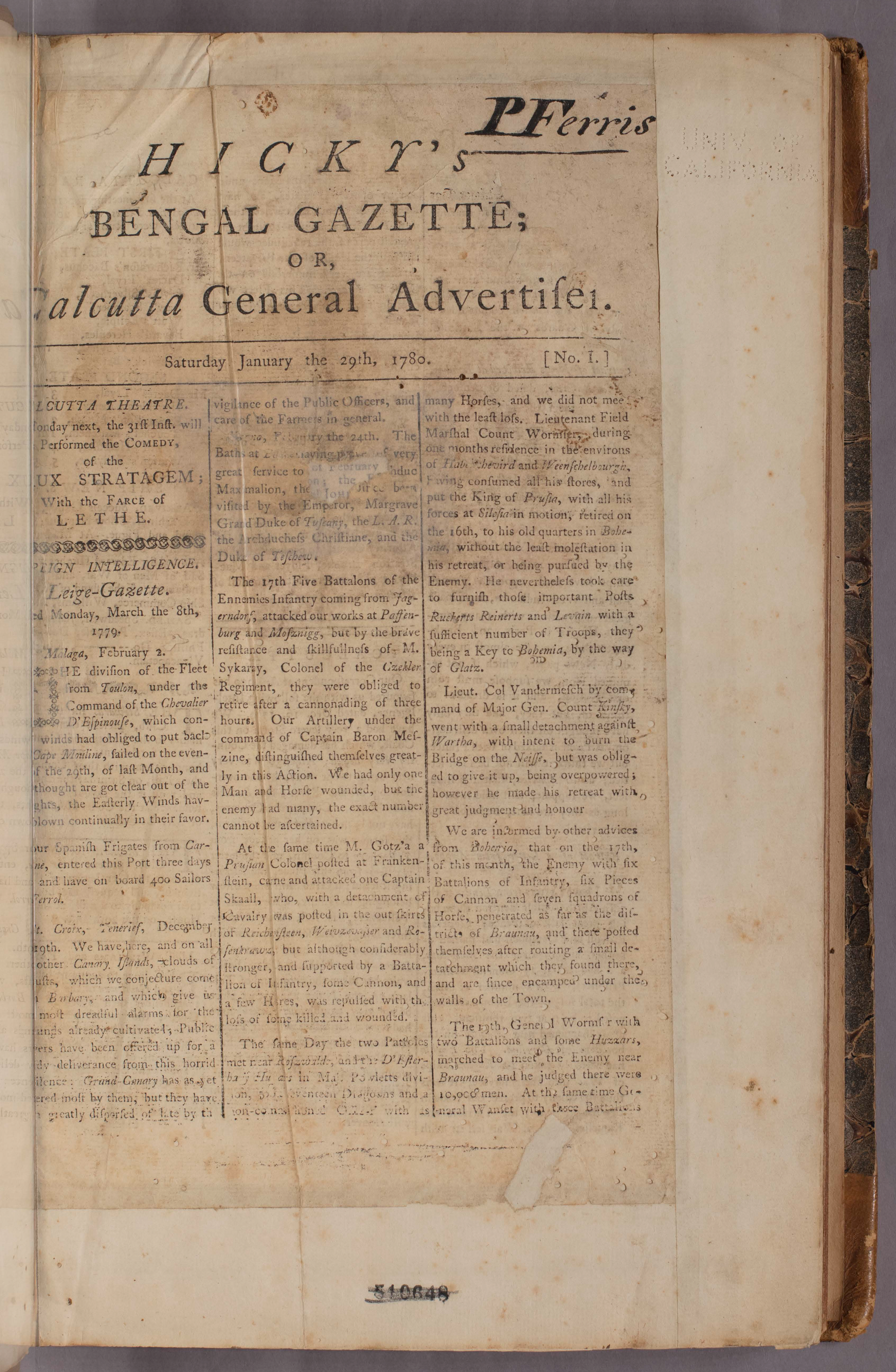 The first page of the first issue of Hicky's Bengal Gazette, January 29, 1780. The University of California released this image to me without copyright. I then cropped and edited it.